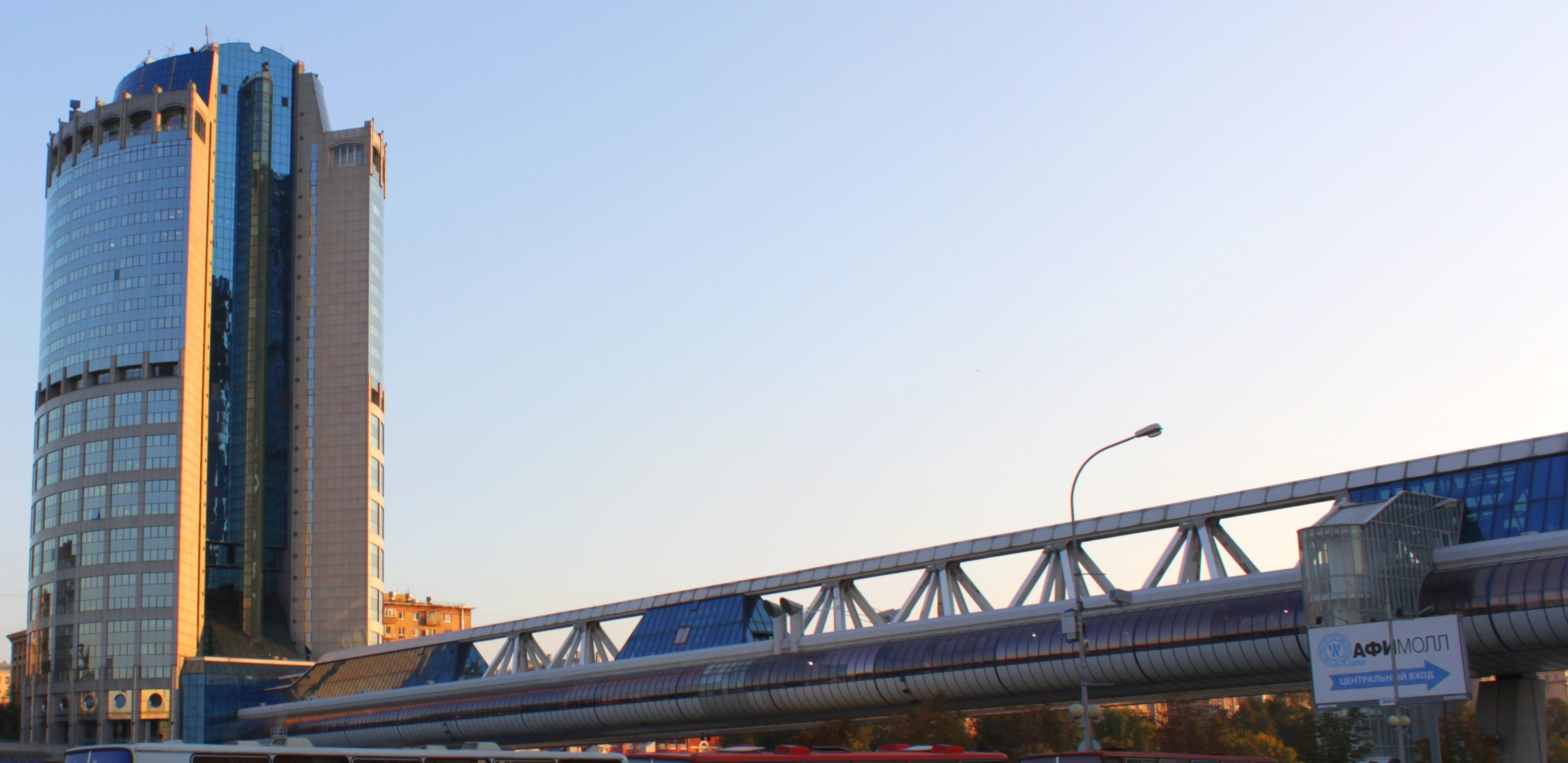 Tower 2000 12th September 2012